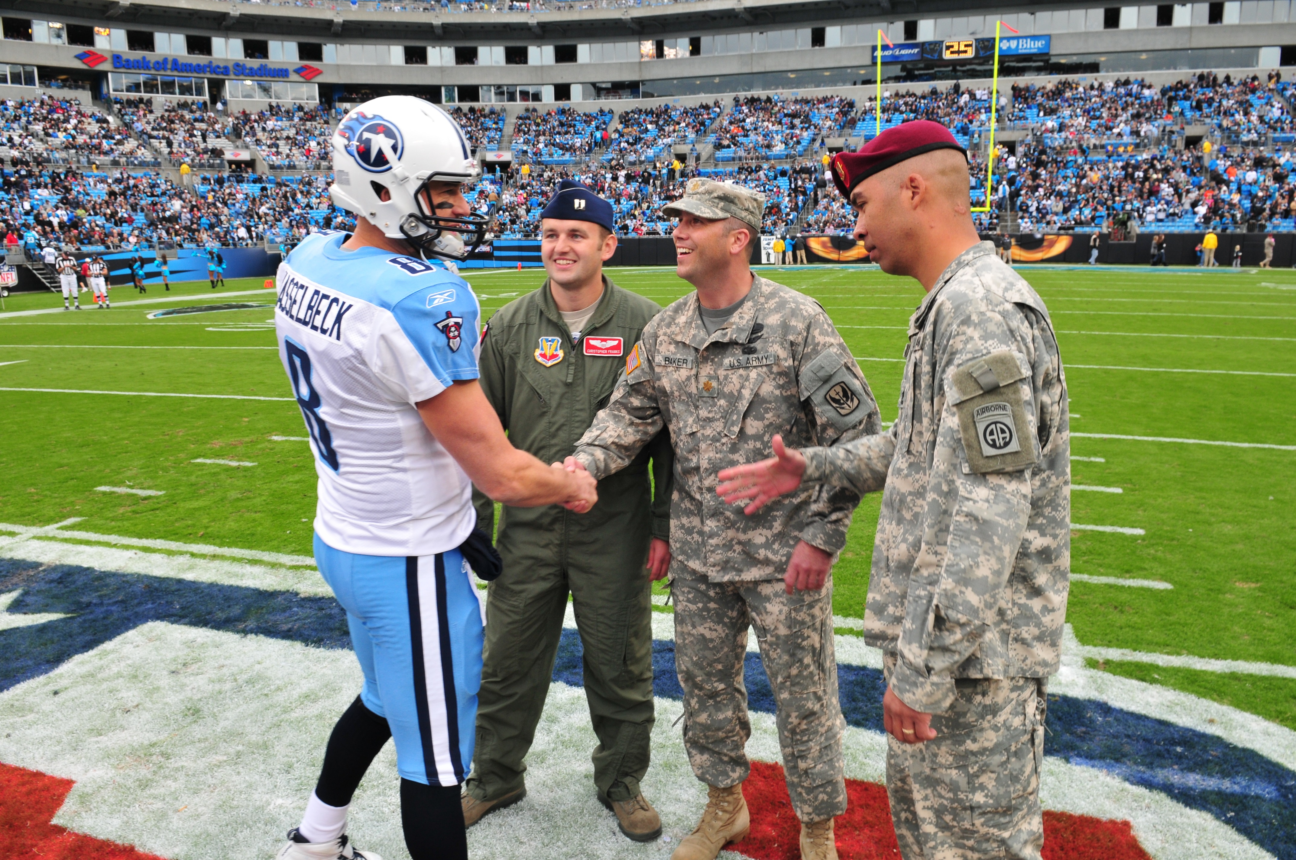 CHARLOTTE, N.C. -- November 13, 2011 - Major Dave Baker of the North Carolina Army National Guards' 449th TAB meets Tennesee Titan Quarterback Matt Hassellbeck after the coin toss, all part of his Operation Gameday Experience with Carolina Panthers at the Bank of America Stadium. (U.S. Air Force Photo by Tech. Sgt. Brian E. Christiansen)